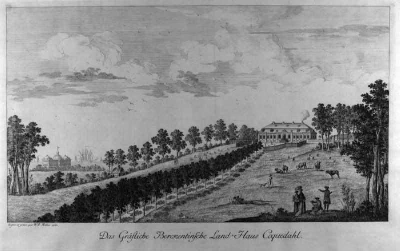 Kokkedal Palace in Zealand, 1763: "Das Gräfliche Berckentinische Land-Haus Coquedahl". (demolished c. 1865) Sophienberg Palace can be seen in the distance to the left.